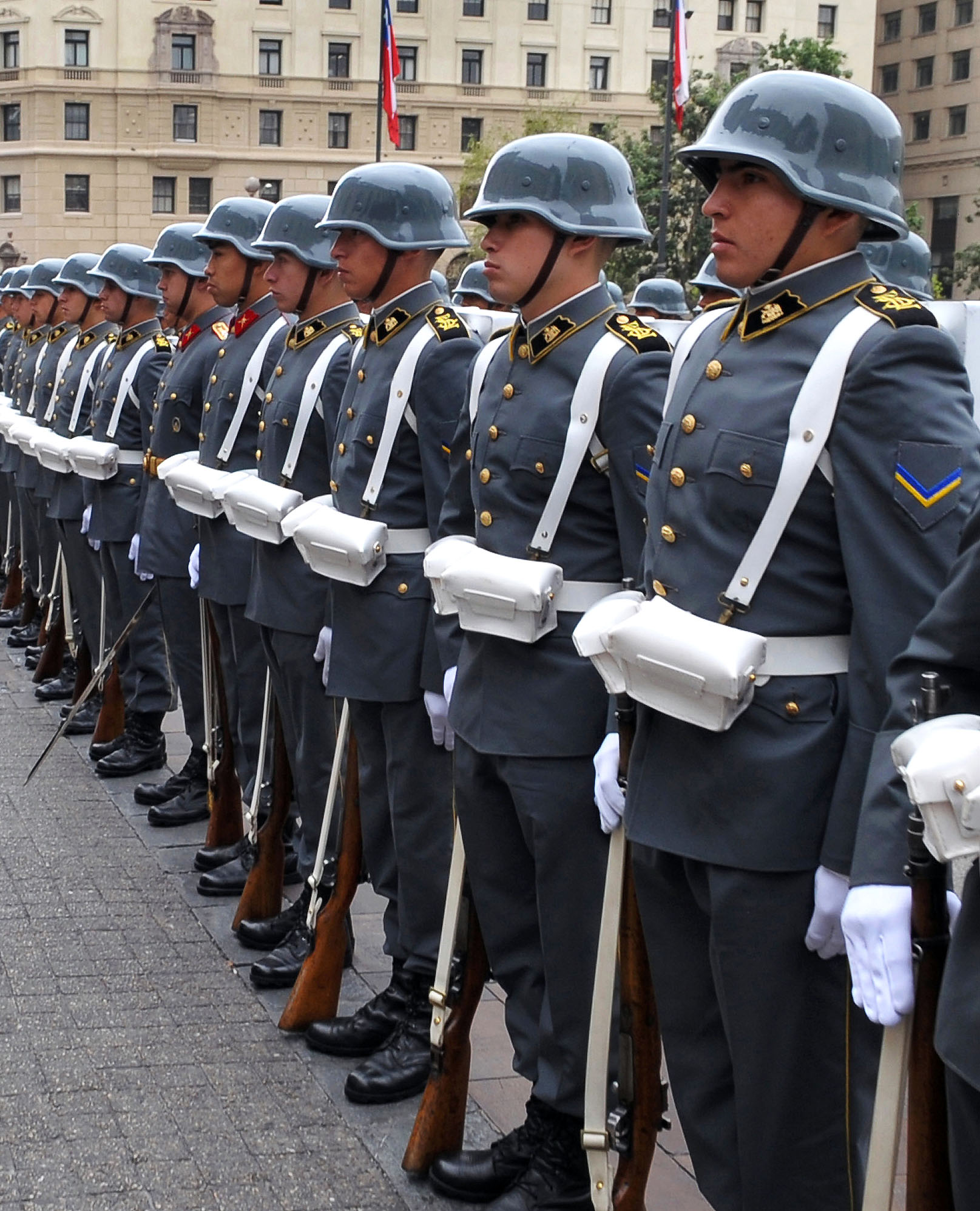 (croped photo) U.S. Navy Adm. Mike Mullen, Chairman of the Joint Chiefs of Staff, walks past a formation of Chilean troops in Santiago, Chile, March 3, 2009. The chairman visited the country to meet with senior Chilean officials and speak at the Chilean Army War College.